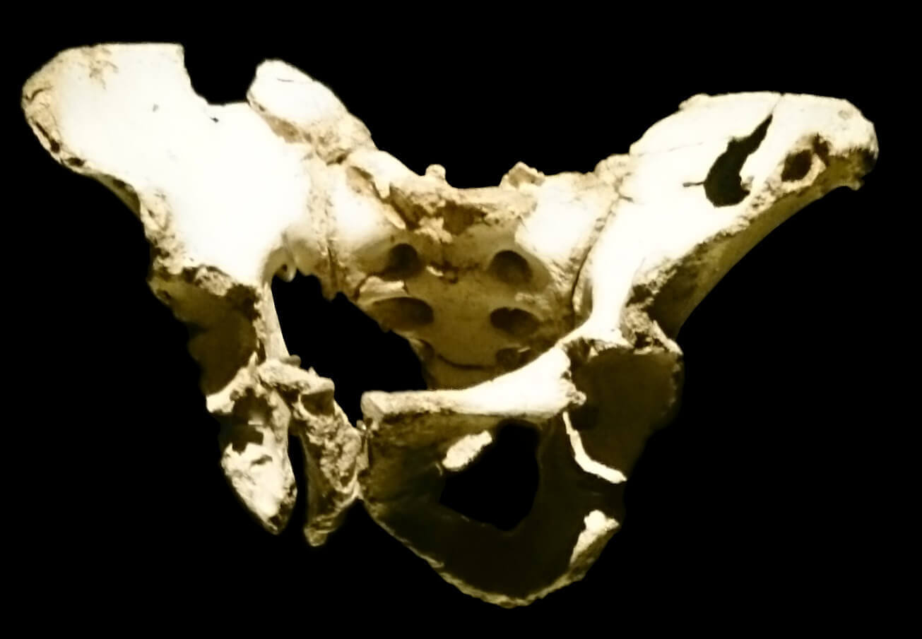 Pelvis 1 found in the Sima de los Huesos